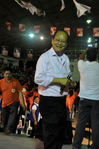 Taken when Senate President Ernesto Maceda (1996-1998) was campaigning for an unsuccessful re-election bid of President Joseph Estrada (1998-2001) during the 2010 Presidential Election. Taken last April 14, 2010 at the province of Cebu.